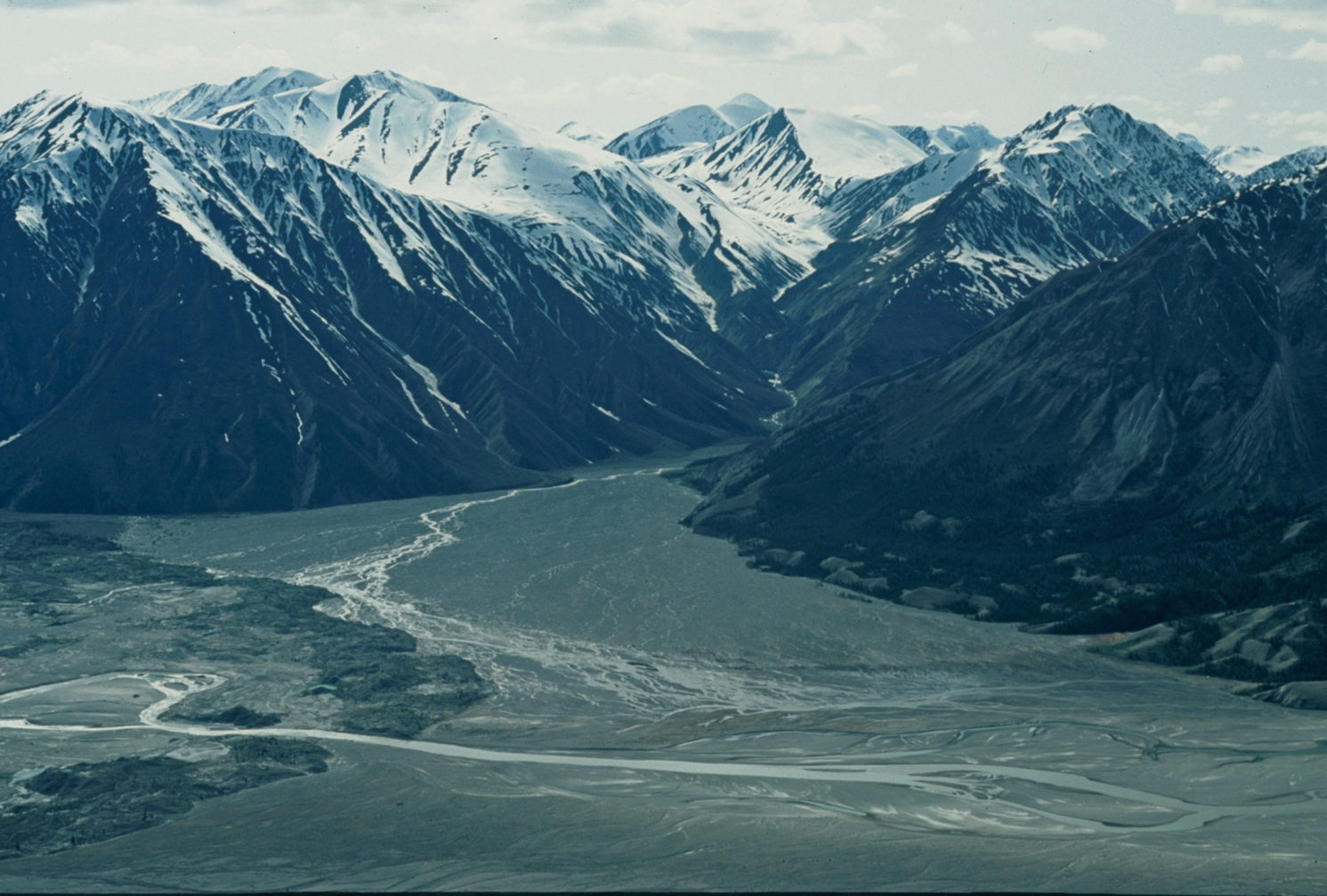 Kluane National Park seen from lower slopes of Vulcan Mountain. June 1992